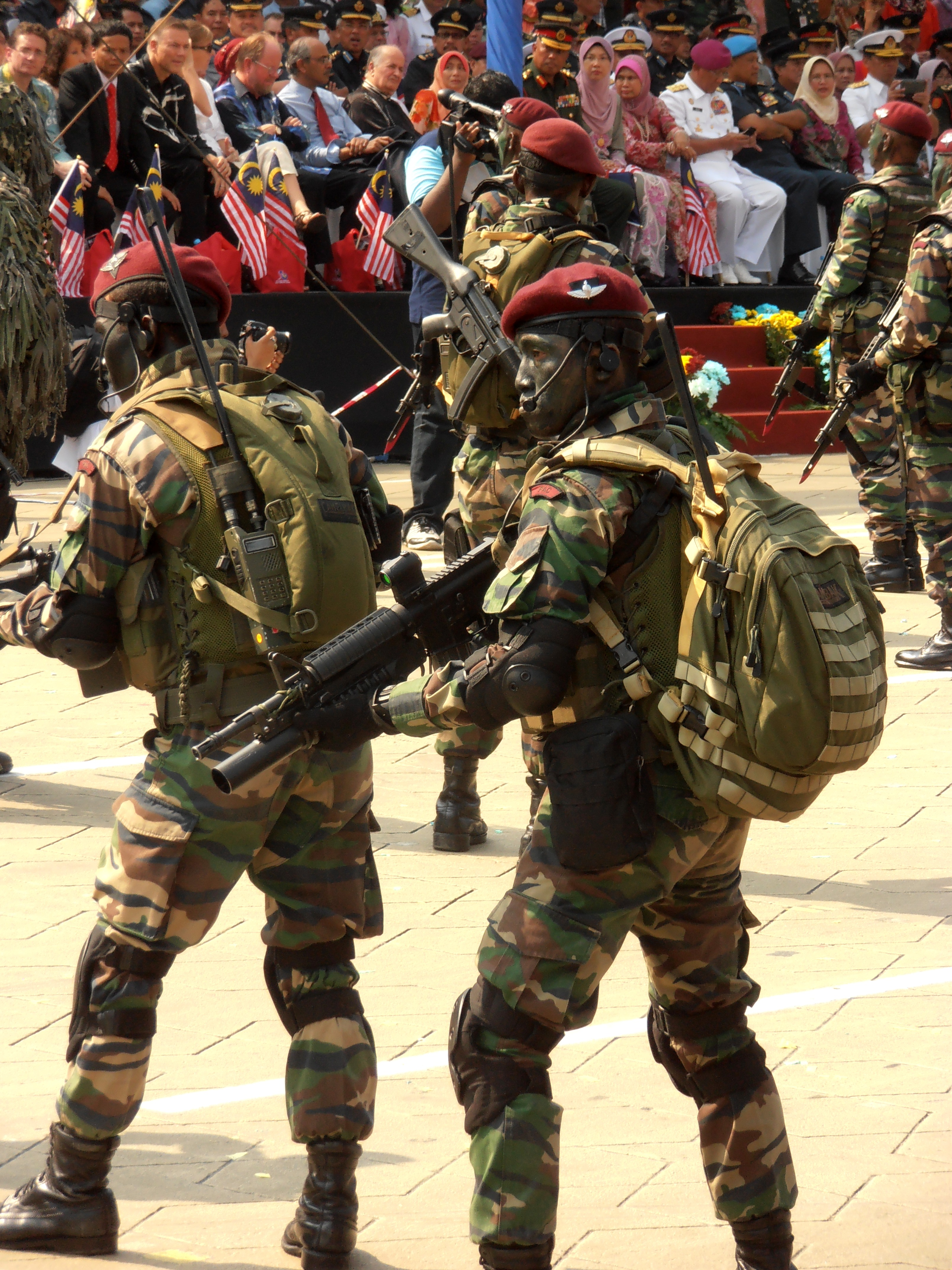 An operator of 10 Paratrooper Brigade with Colt M4A1 with M203 grenade launcher and Aimpoint Micro-T red dot sight standby for demonstrated specialised combat operations during the National Day Parade of 2013 at National Square, Kuala Lumpur, Malaysia.